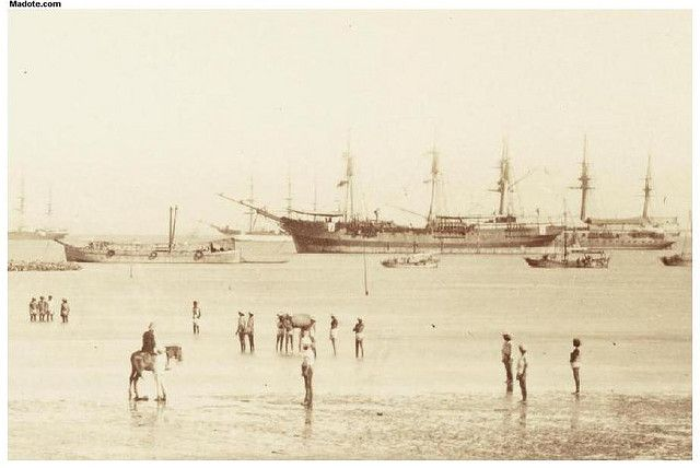 British ships in Annesley Bay, Eritrea